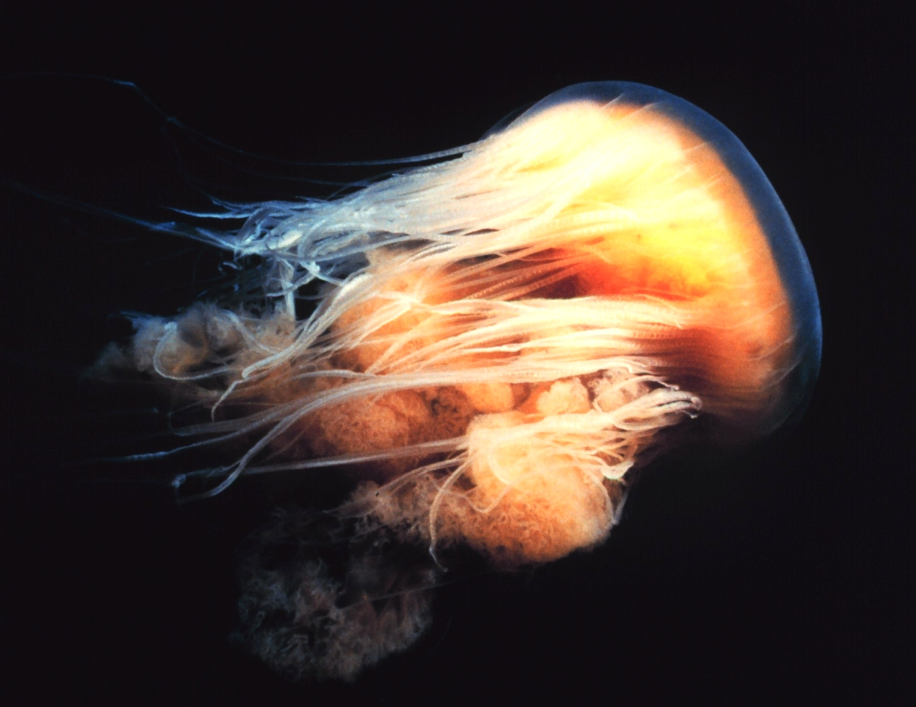 Lion Mane jellyfish. California, Monterey Bay National Marine Sanctuary.